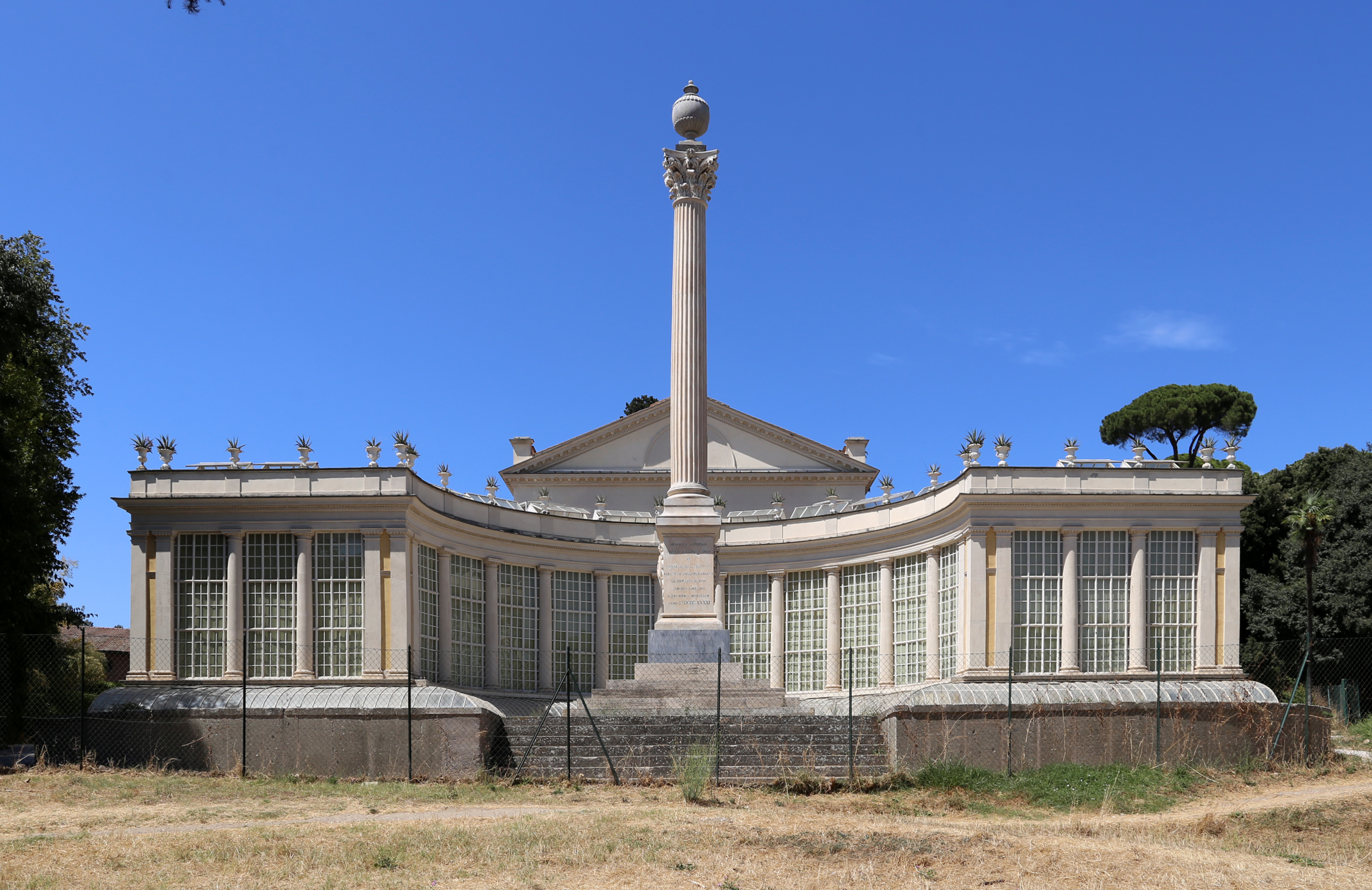 Villa Torlonia (Rome)